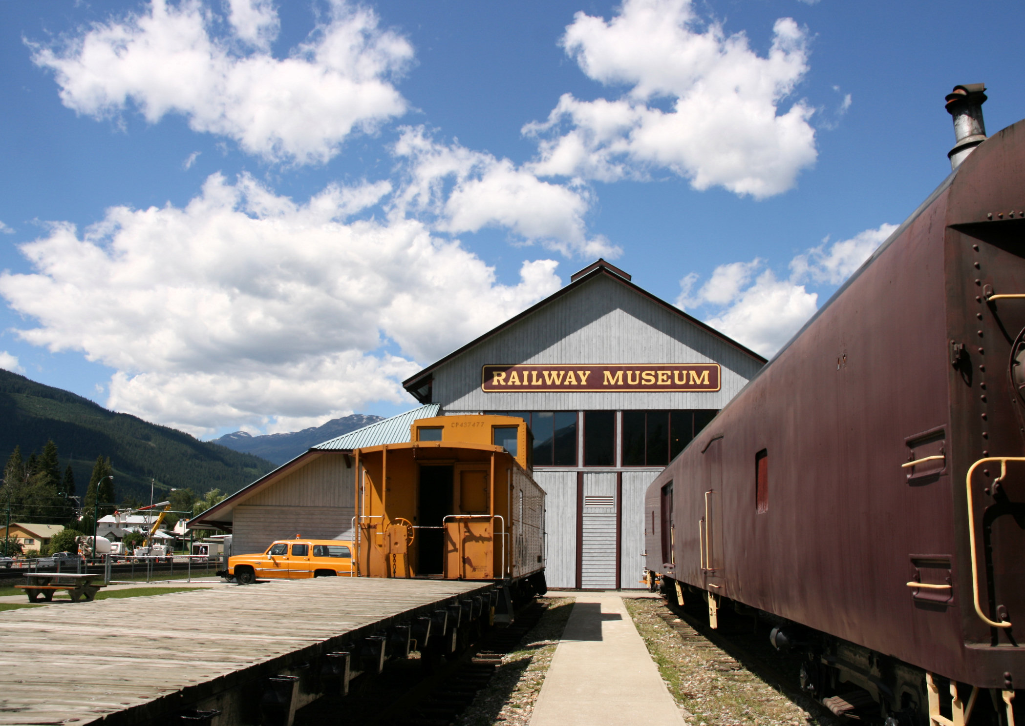 Railway Museum in Revelstoke, British Columbia, Canada.